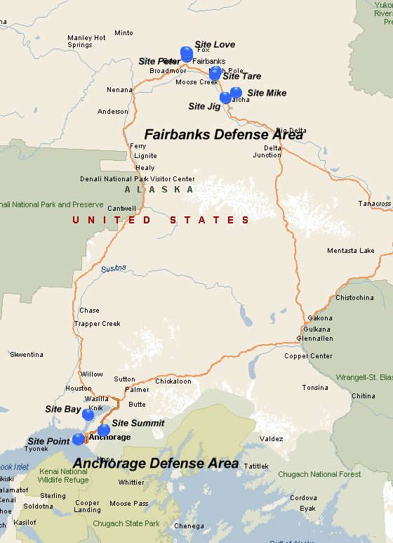 Map of Nike missile sites in Alaska